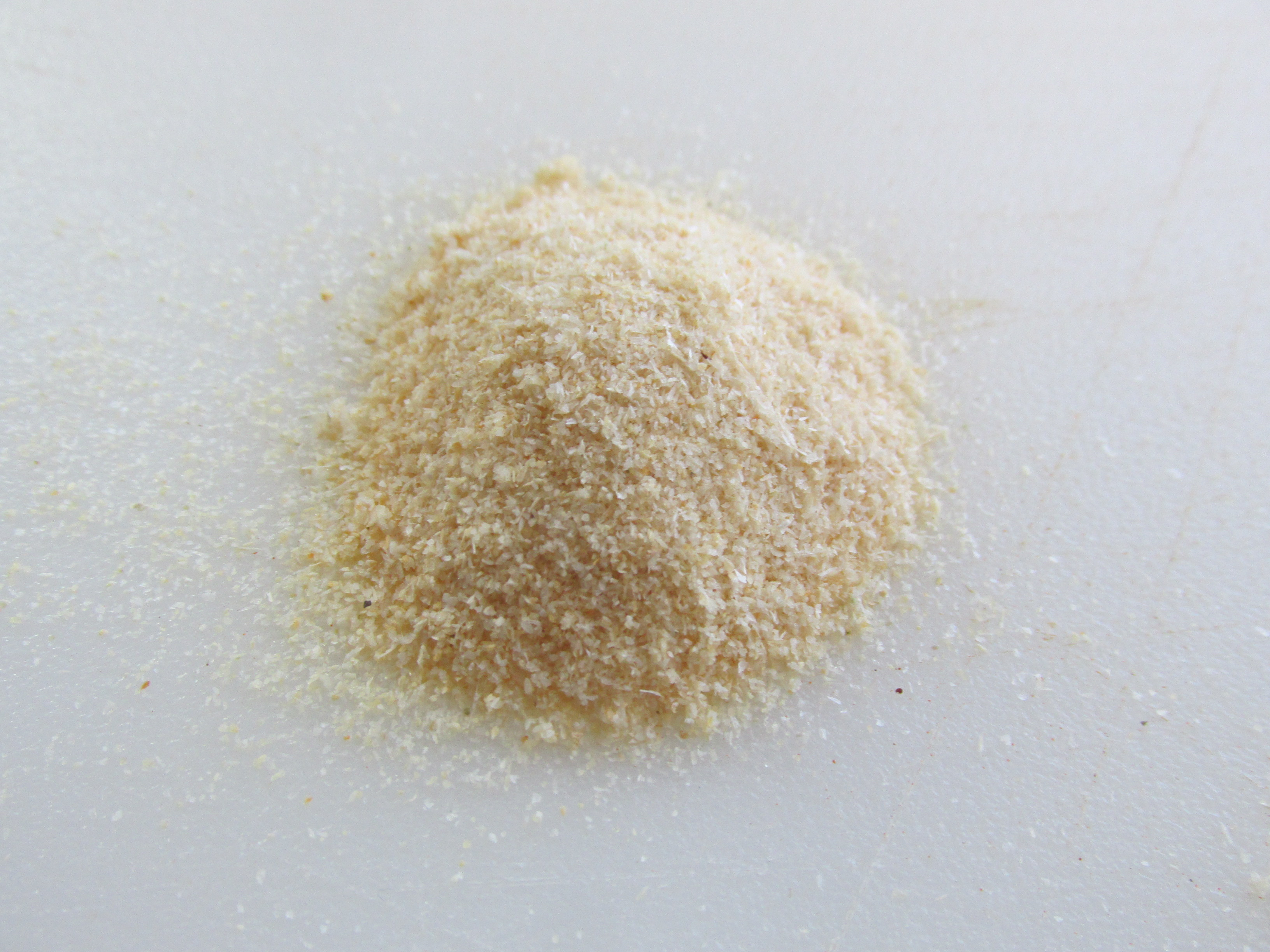 Onion Powder, Penzeys Spices, Arlington Heights Massachusetts - 2014